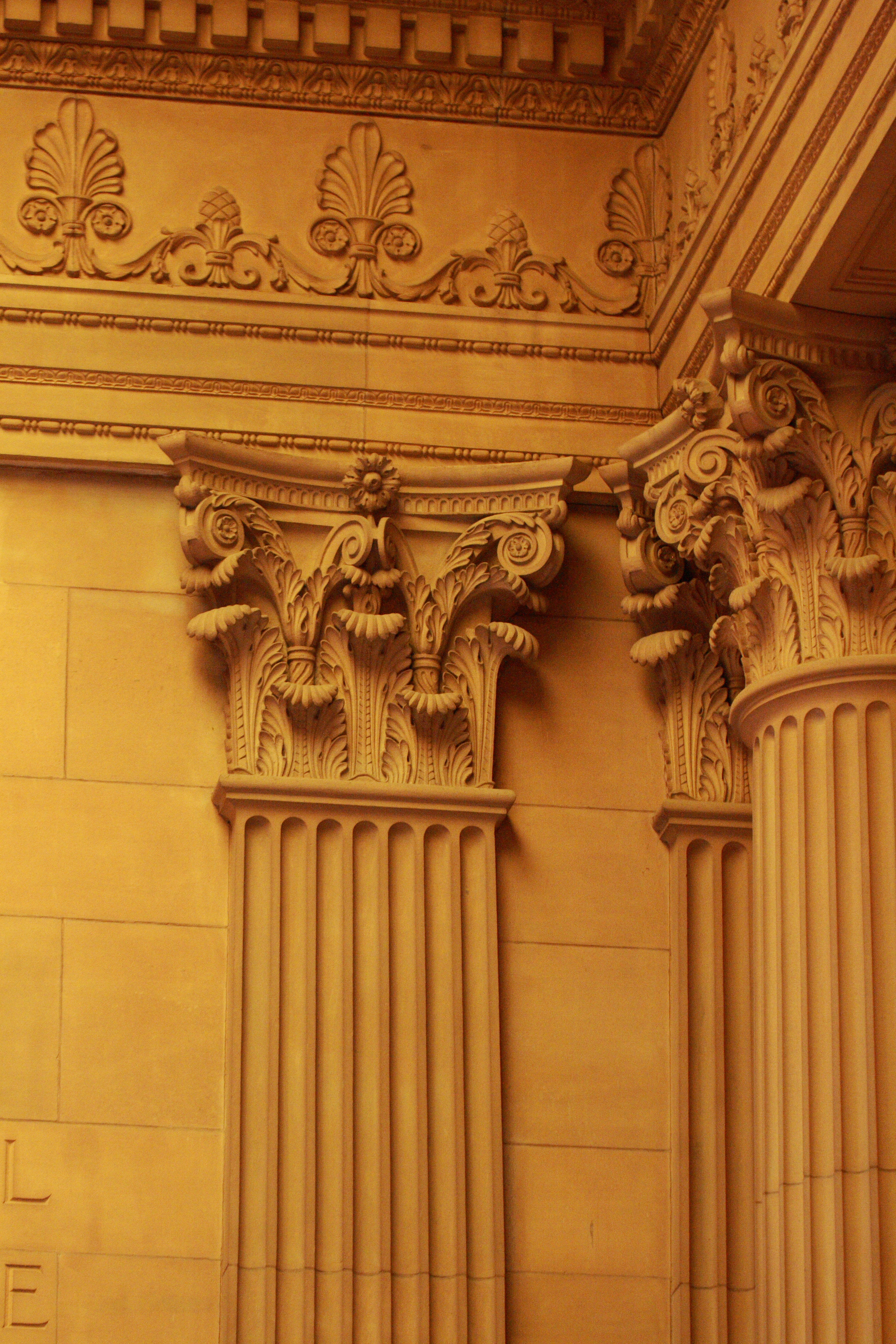 Detail of the Mitchell Library at the State Library of New South Wales.